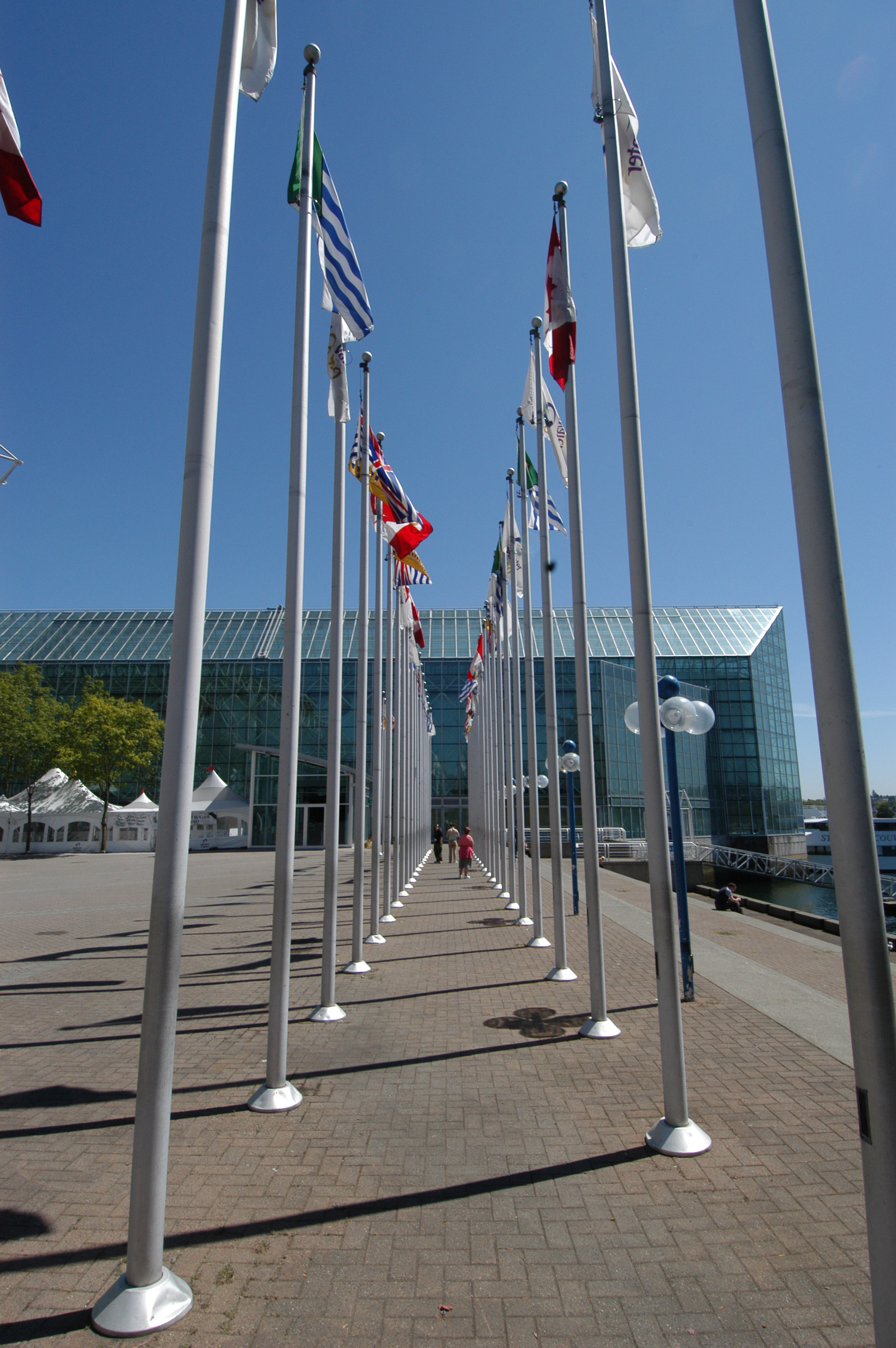 Plaza of Nations